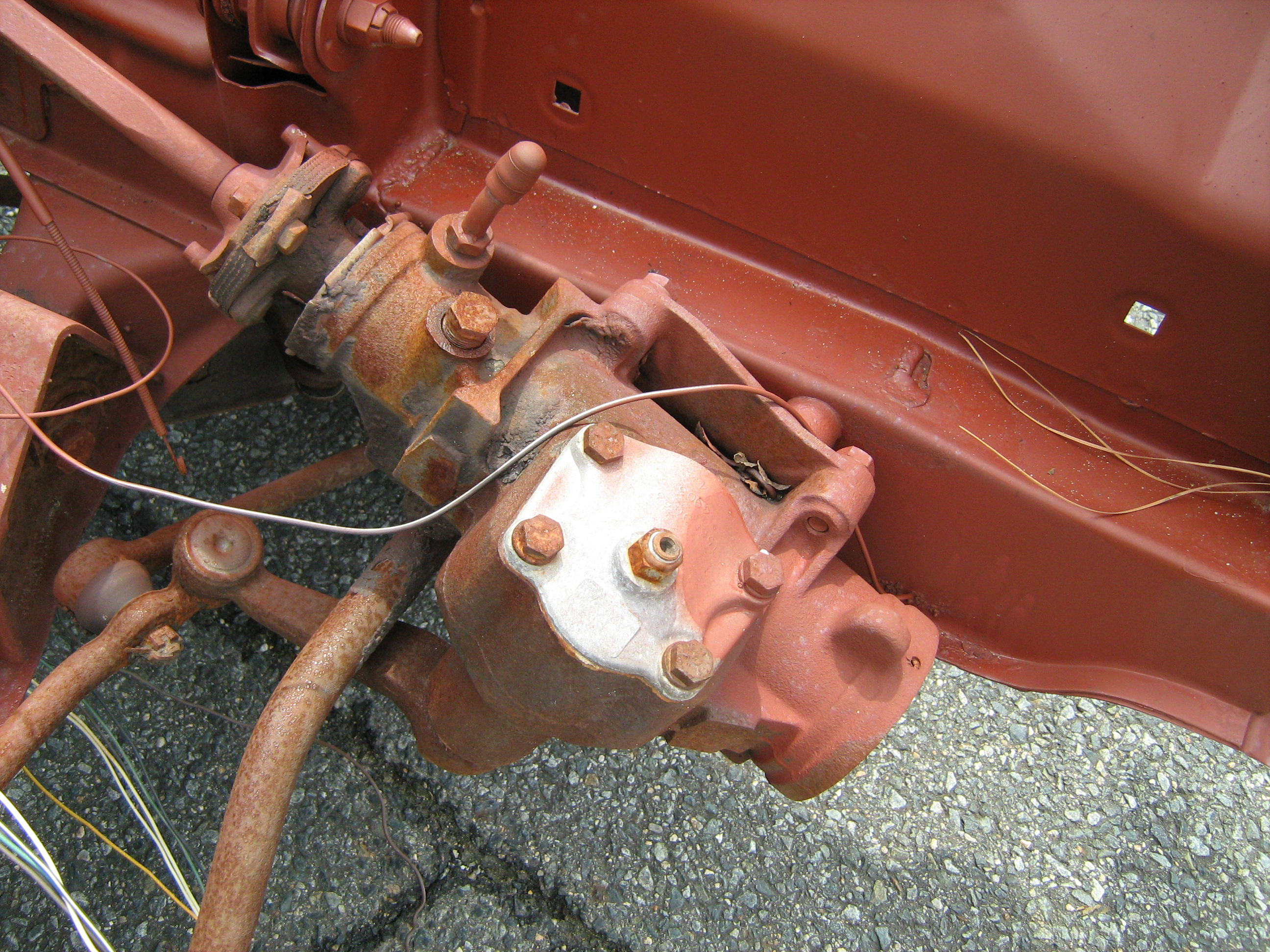 Steering box detail on an American Motors' stripped AMX "unibody" steerable rolling chassis ready for a project car (complete into race car, show car, custom car) at Cecil County Dragstrip in Maryland. The other pieces (such as doors, fenders, hood, trunk lid, etc. were taken off and on the side)